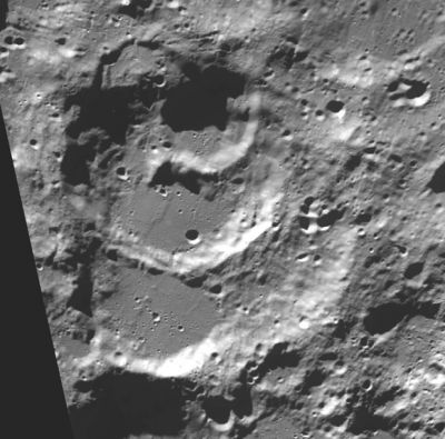 In this complicated cluster of craters Newton is the moderate sized circular crater near the top with a small peak at its center. It overlays smooth-floored 67-km Newton G on the south; and is overlain by Newton D, the 37-km circular crater inside the northeast rim. 64-km Newton A completes the line of large overlapping craters visible from Earth. It is cut off at the bottom of this image, with just the shadowed inner wall of its north rim showing. The little half-moon scallop on Newton's northwest rim is unnamed; nor does the broad bumpy extension to Newton's southeast appear to be part of any named crater.